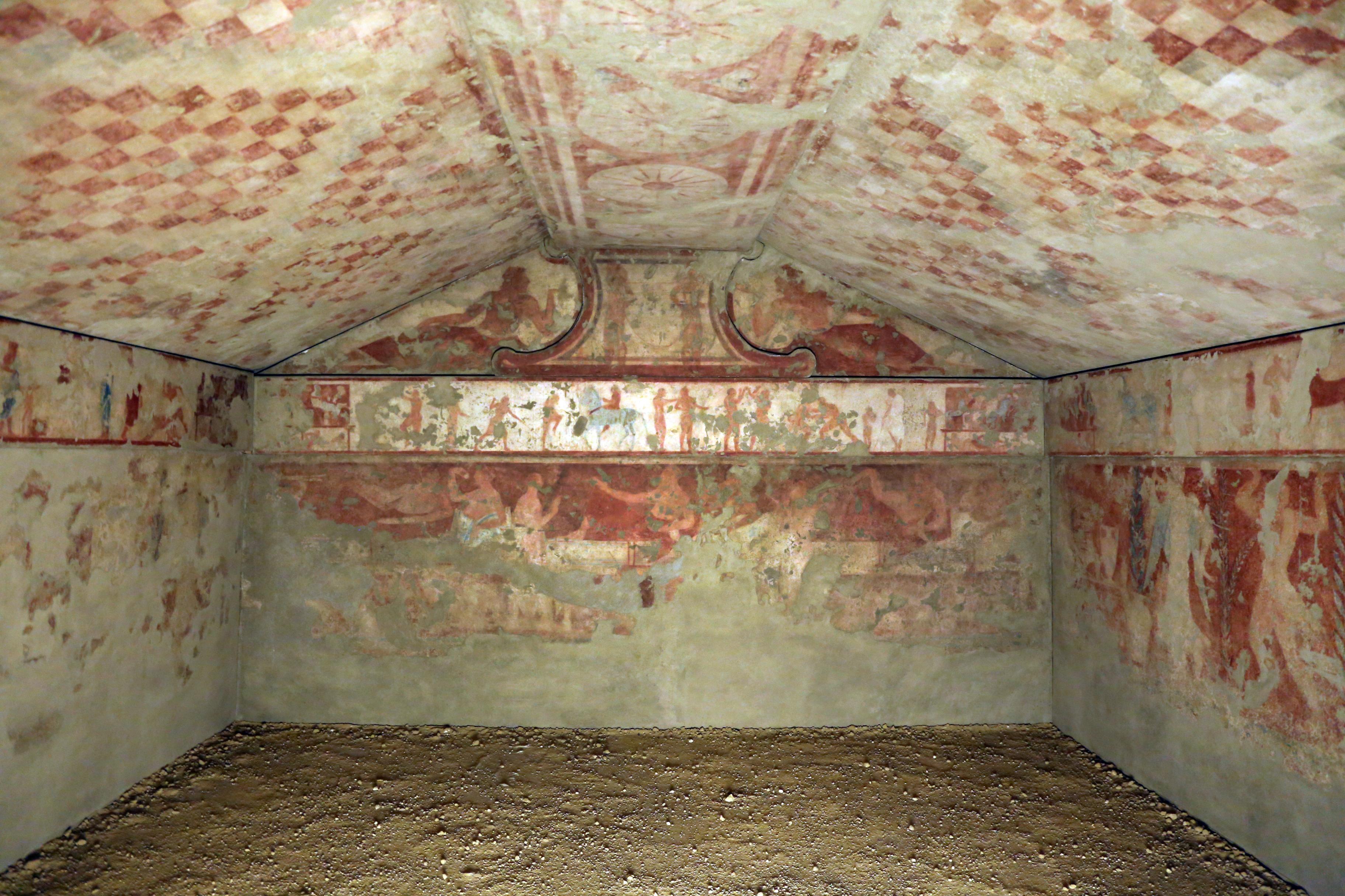 Etruscan antiquities the Museo archeologico nazionale (Tarquinia)